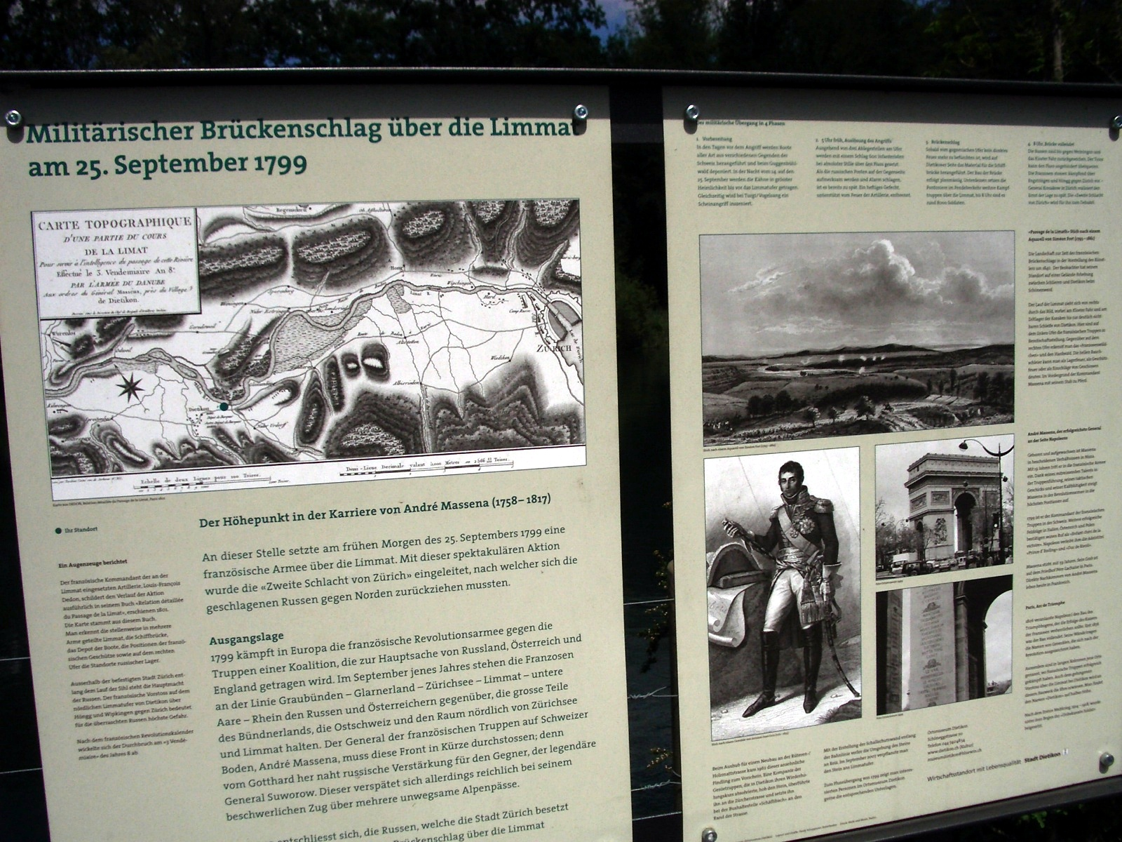 Dietikon ZH, Switzerland